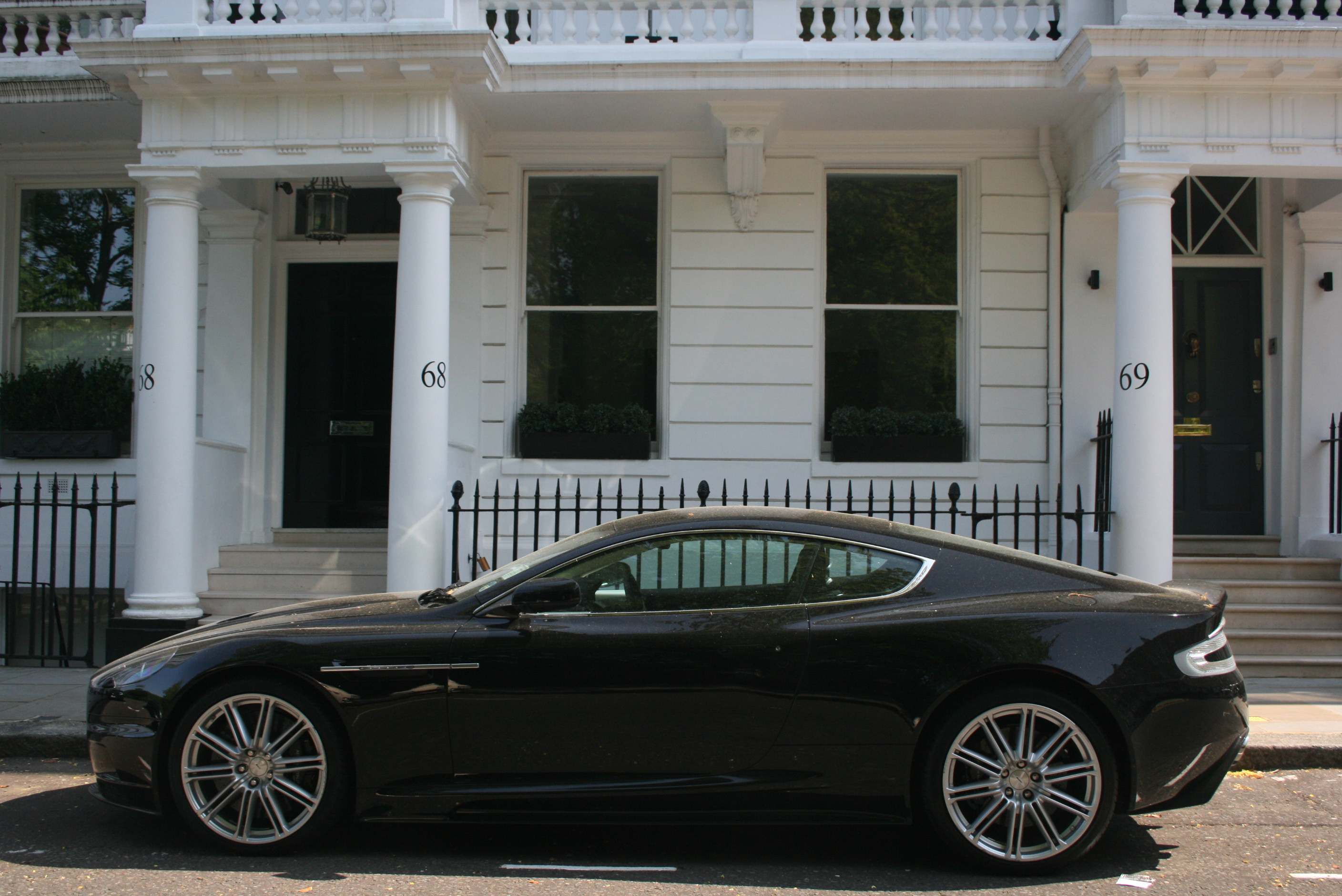 Dusty Aston Martin DBS